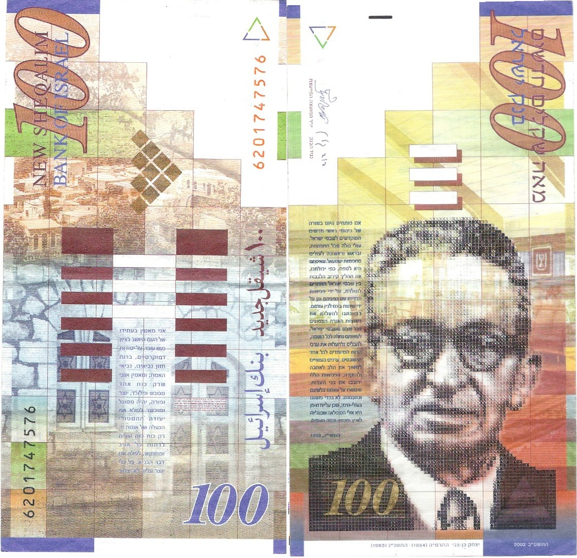 Obverse & Reverse side of a 100 NIS bill